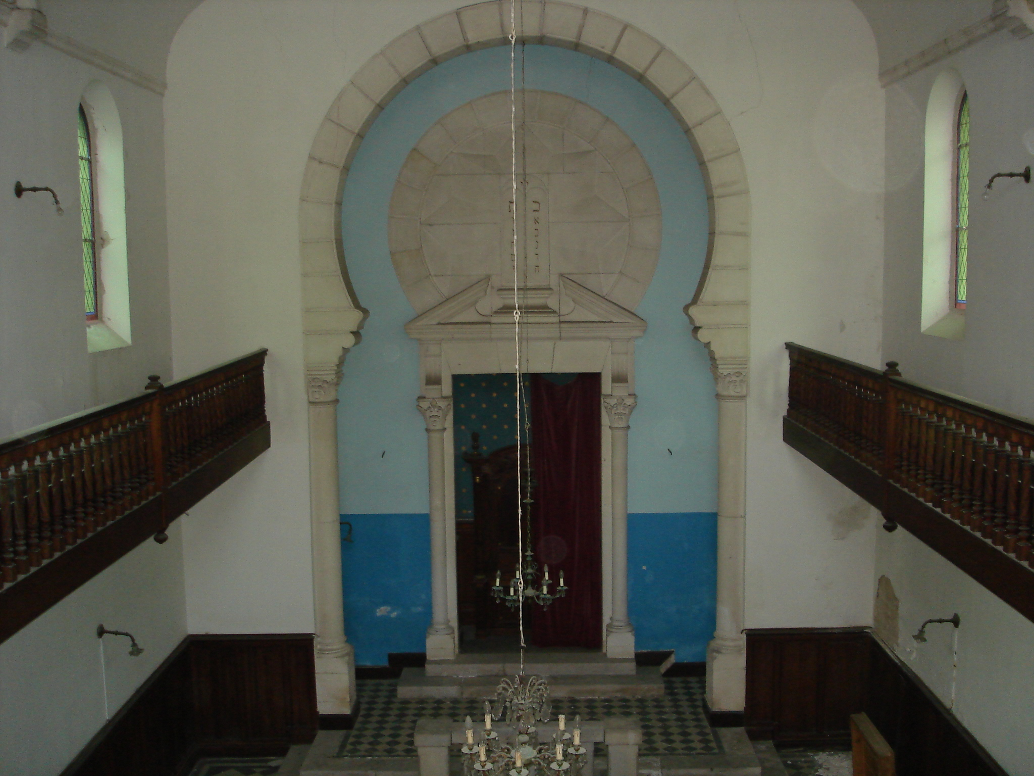 Synagogue of Biarritz (France); Built in 1904, closed in 1999. Will reopen in Summer 2011. The interior.